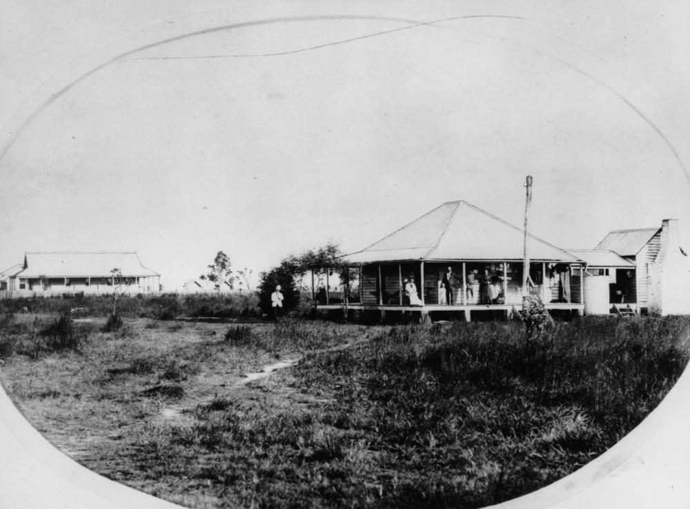 Ingham's first post office, Queensland, ca.1880 Patrons and employees are photographed on the verandah of the post and telegraph office. The wooden pyramid-roofed building has encircling verandahs and a breezeway to an adjoining residence behind the main post office. There is a large water tank and telegraph pole beside the main building.